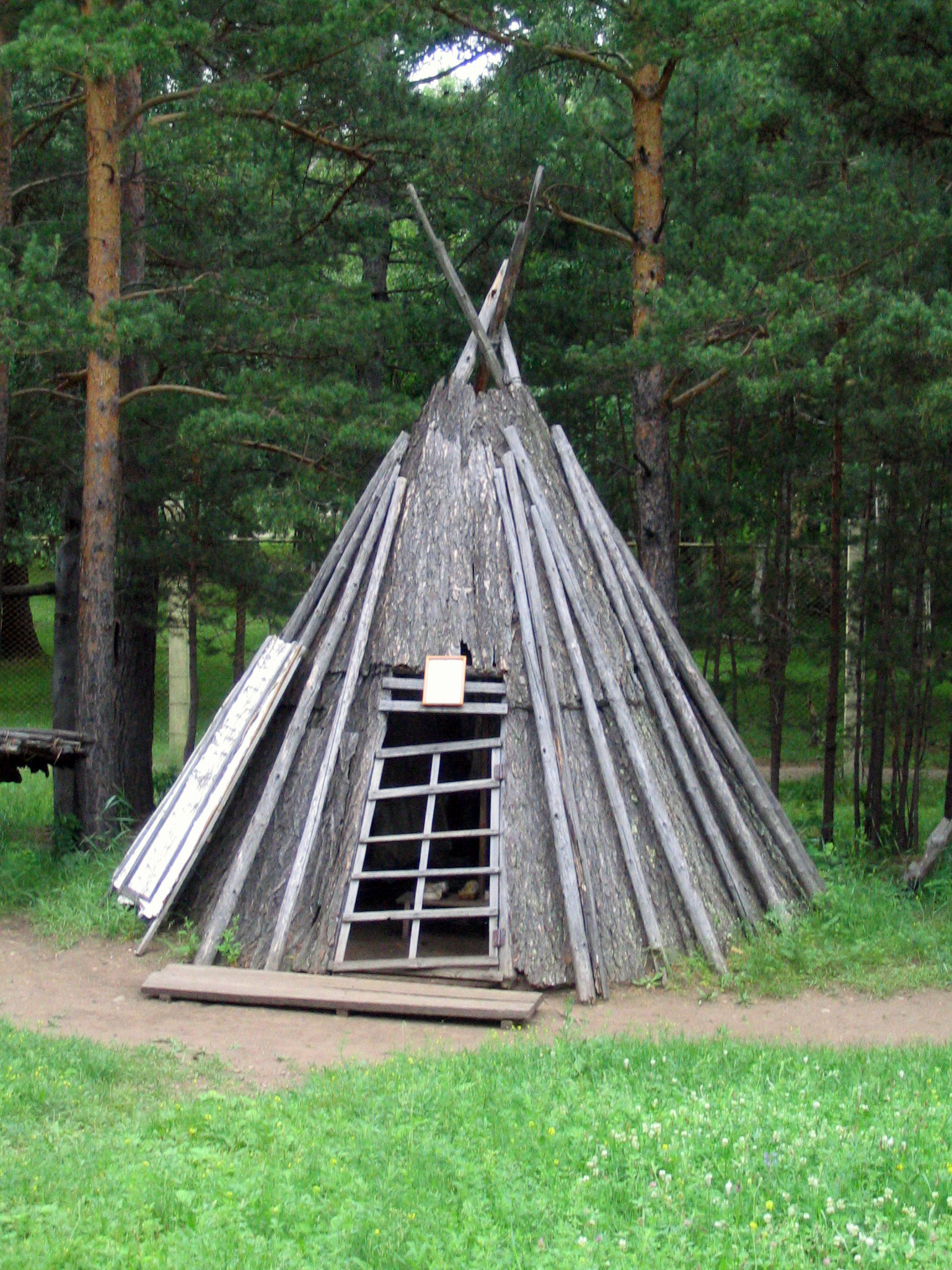 Image of an Evenks wooden home in ethnographic museum in Ulan Ude, Russia. Taken by me 7/06 and released into public domain.